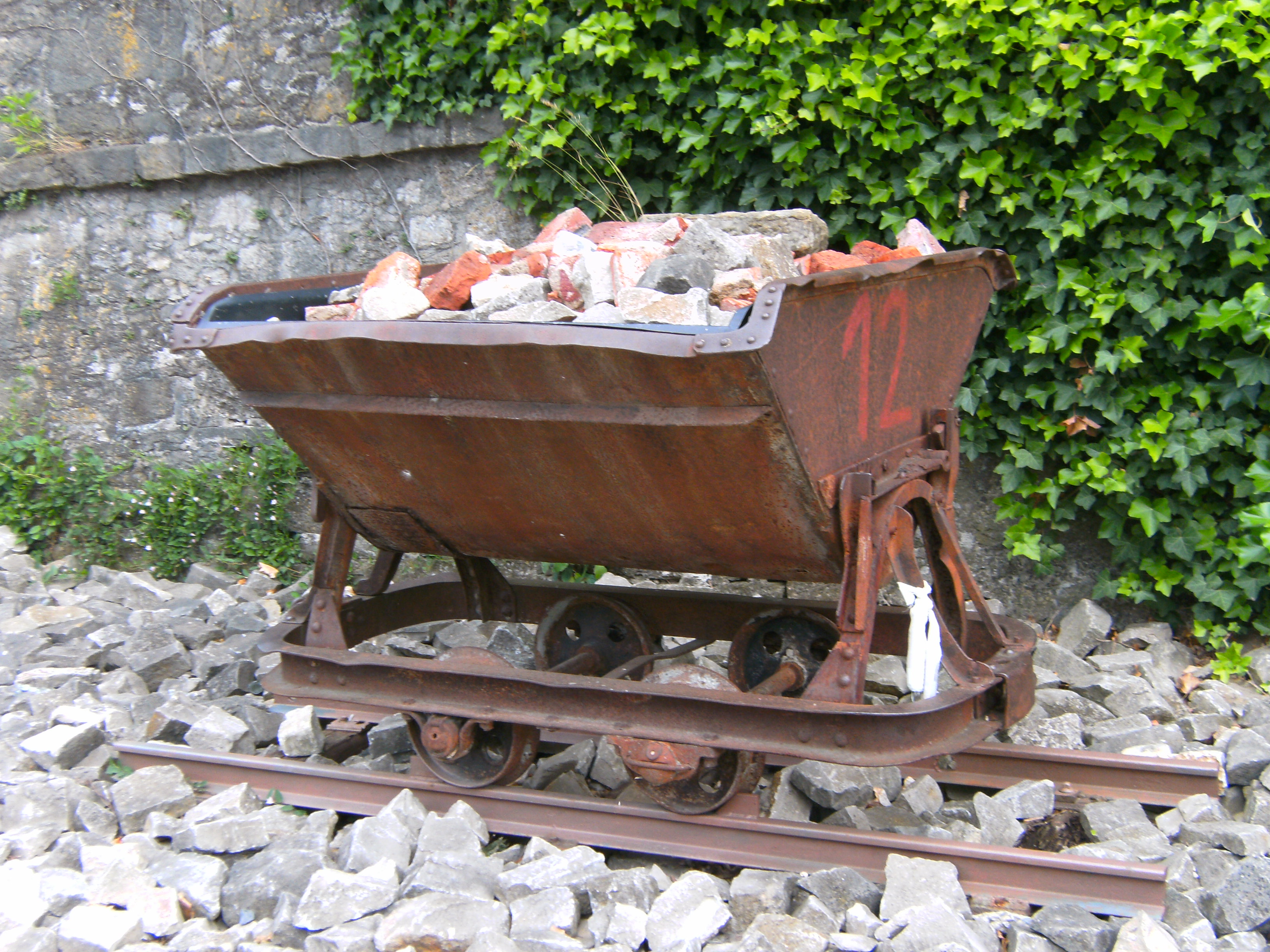 Würzburg, Germany, Alter Kranen (historical crane): Dump car of a Trümmerbahn (Lore) to bring ruins out of town. Symbol and Memorial for reconstruction in Germany after World War II.